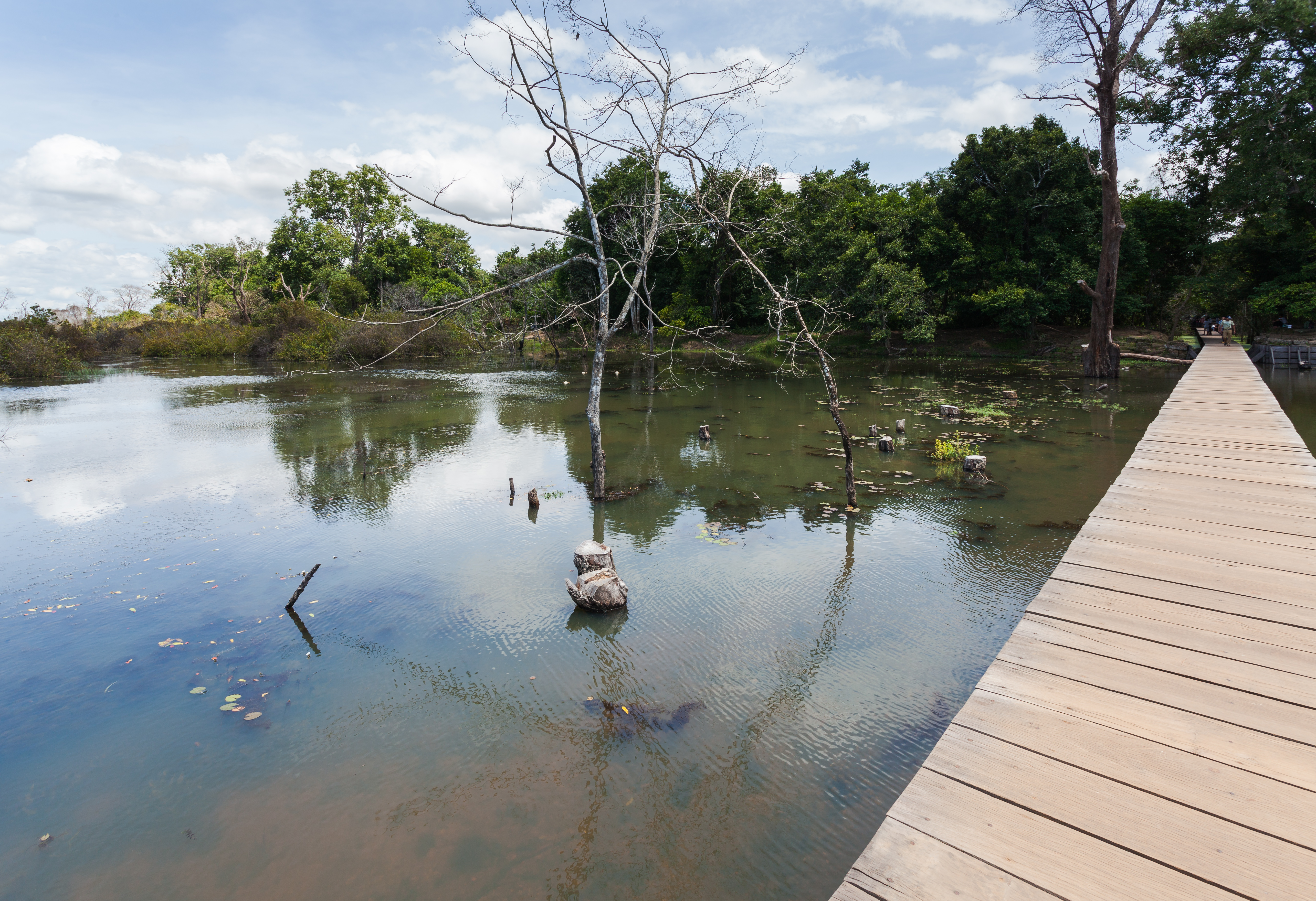 Neak Pean, Angkor, Cambodia